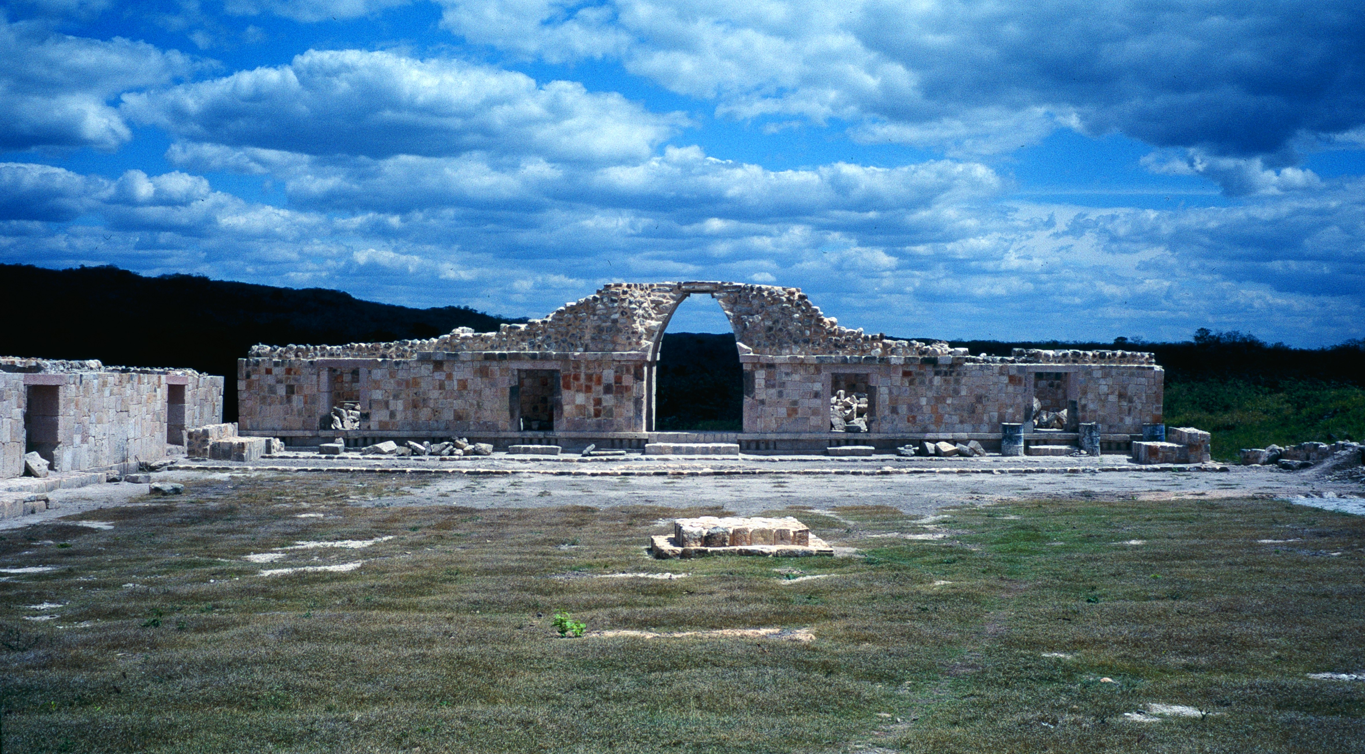 Oxkintoc, Yucatan, Mexico: Group Ah Canul, building 9